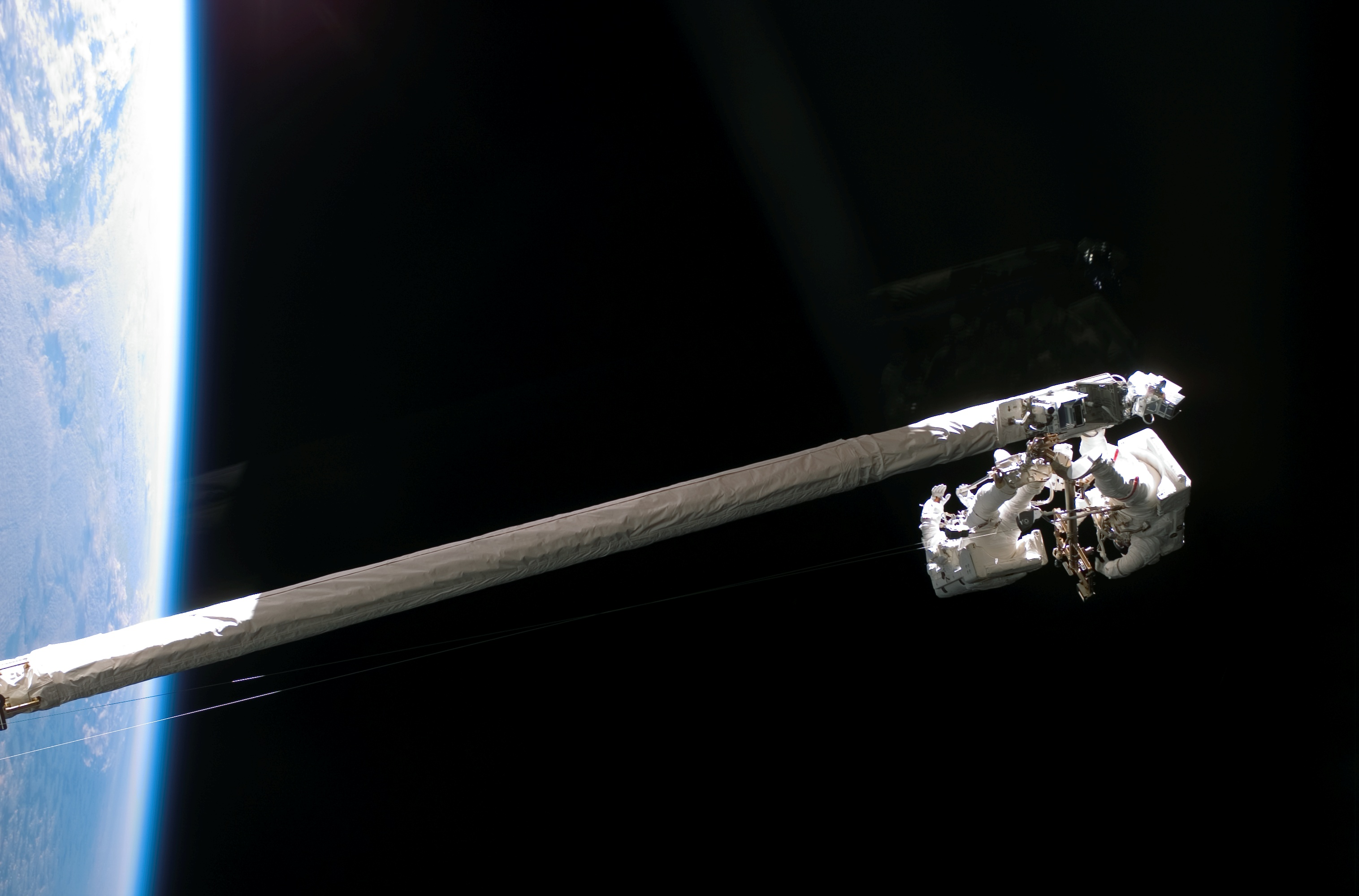 Astronauts Piers J. Sellers (red stripes) and Michael E. Fossum, STS-121 mission specialists, work in tandem on the shuttle's Remote Manipulator System/Orbital Boom Sensor System (RMS/OBSS) during STS-121's first scheduled session of extravehicular activity (EVA).